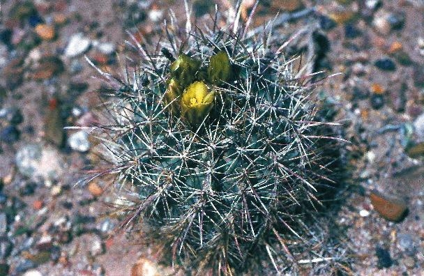 Sclerocactus whipplei